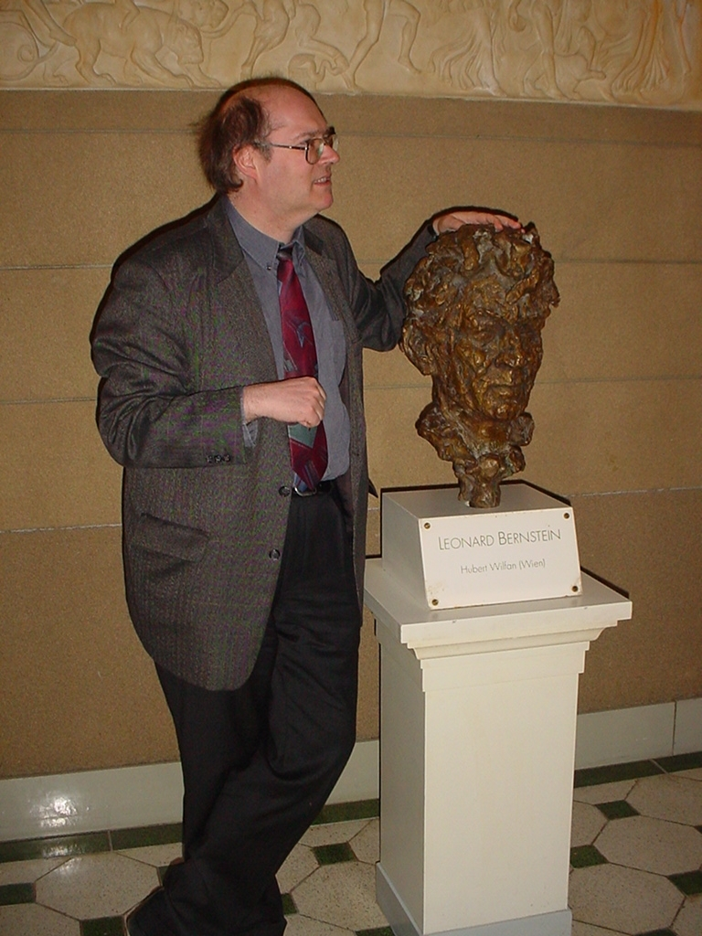 own file